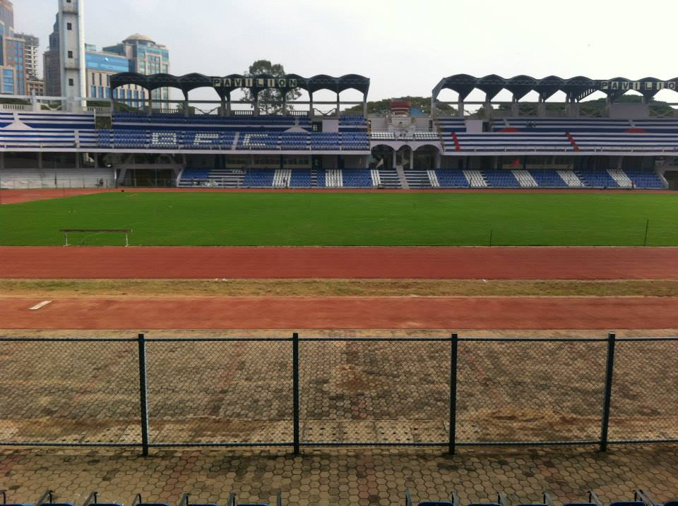 The new,renovated image of sree kanteerava stadium,Bangalore.And the stadium is going to used by Bengaluru FC in Hero I-League and AFC Cup